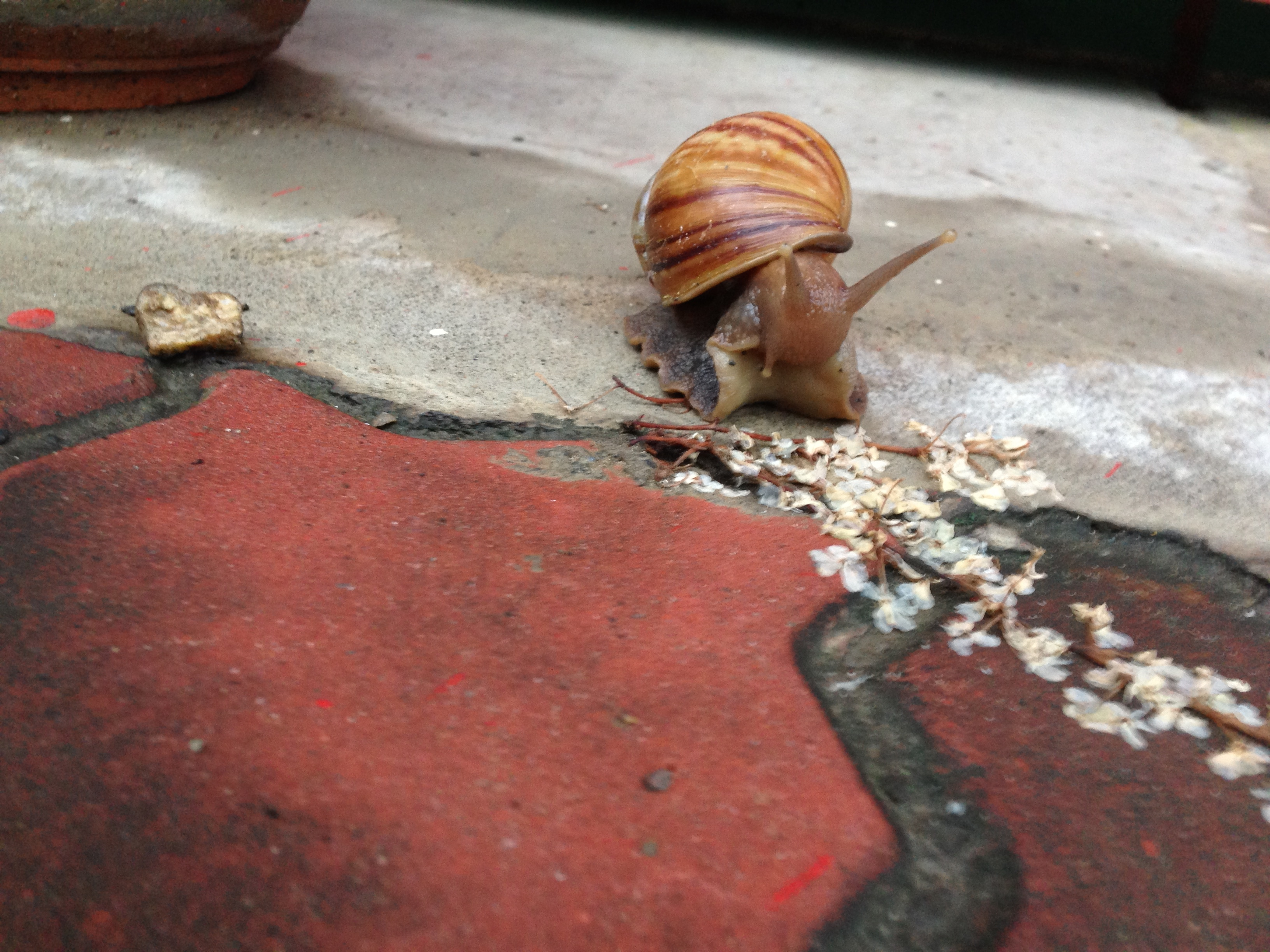 Achatina fulica